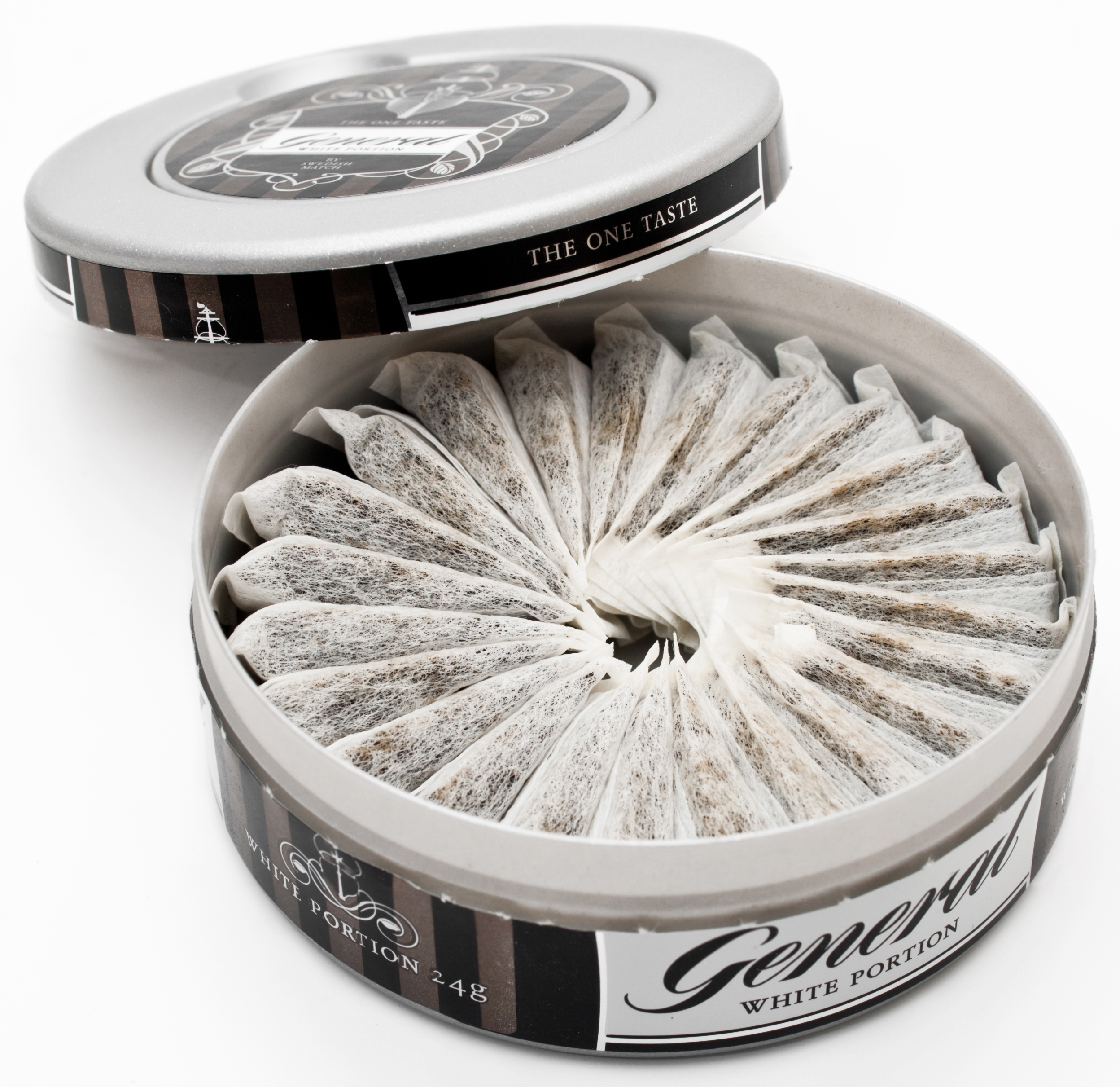 Portioned snus by the brand General